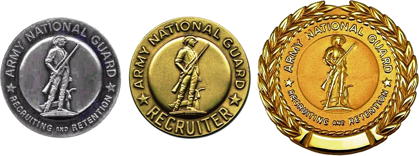 Former United States Army National Guard Recruiting and Retention Badges